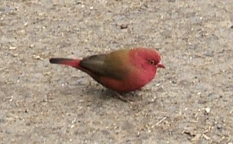 Red-billed Firefinch (Lagonosticta senegala) in Ethiopia